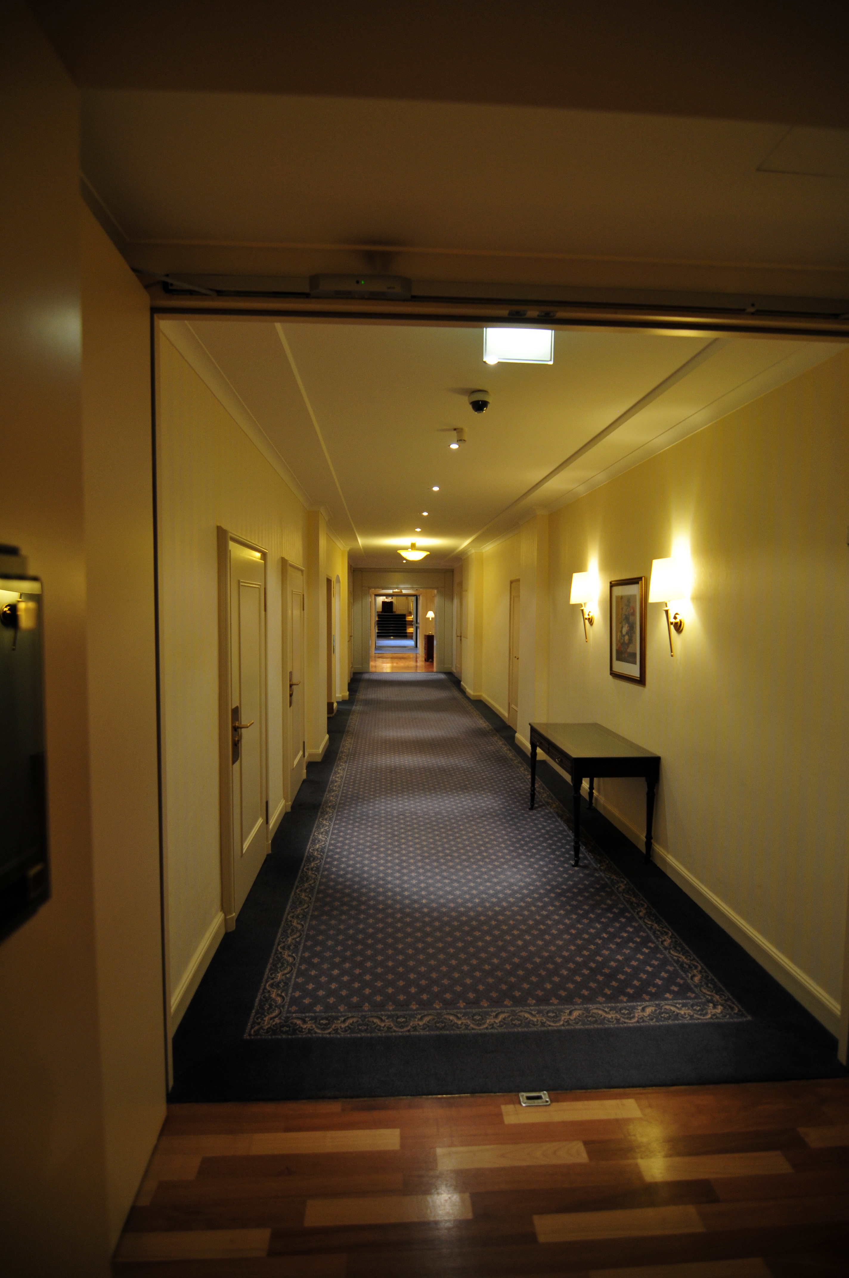 Wiesbaden, Germany, Hotel Nassauer Hof Wikipedia im Landtag – Hessen 26.–28. Februar 2013 in Wiesbaden Fragen zur Nachnutzung Wenn Sie Fragen zur Nachnutzung dieses Bildes haben, können Sie sich jederzeit gern an wenden